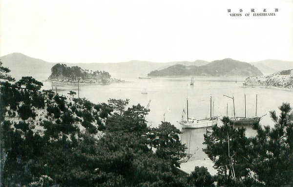 Hasihama Port in Imabari, Ehime pref., Japan.